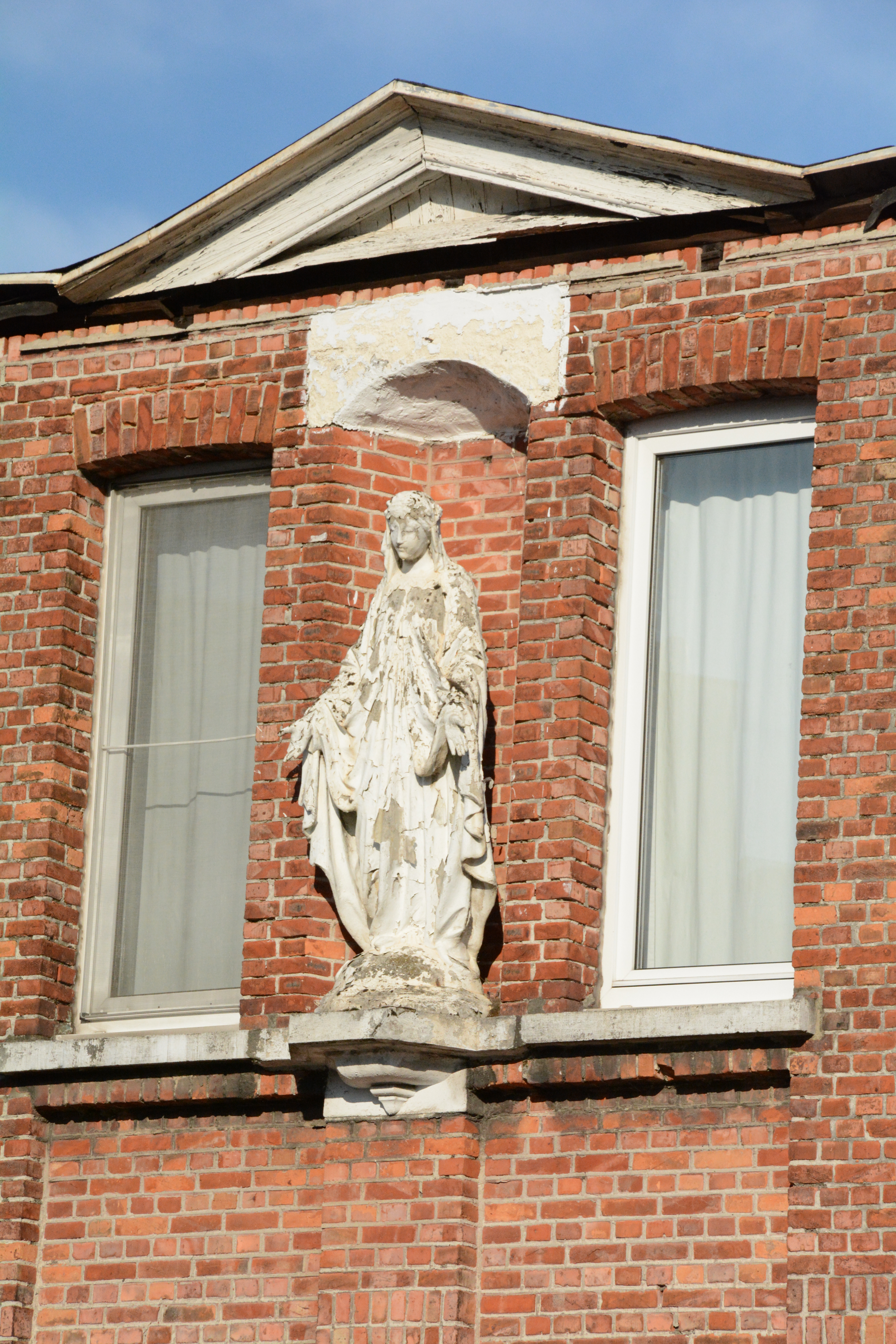 Beeld in Gevel Alfons Wellensstraat 1, Wilrijk